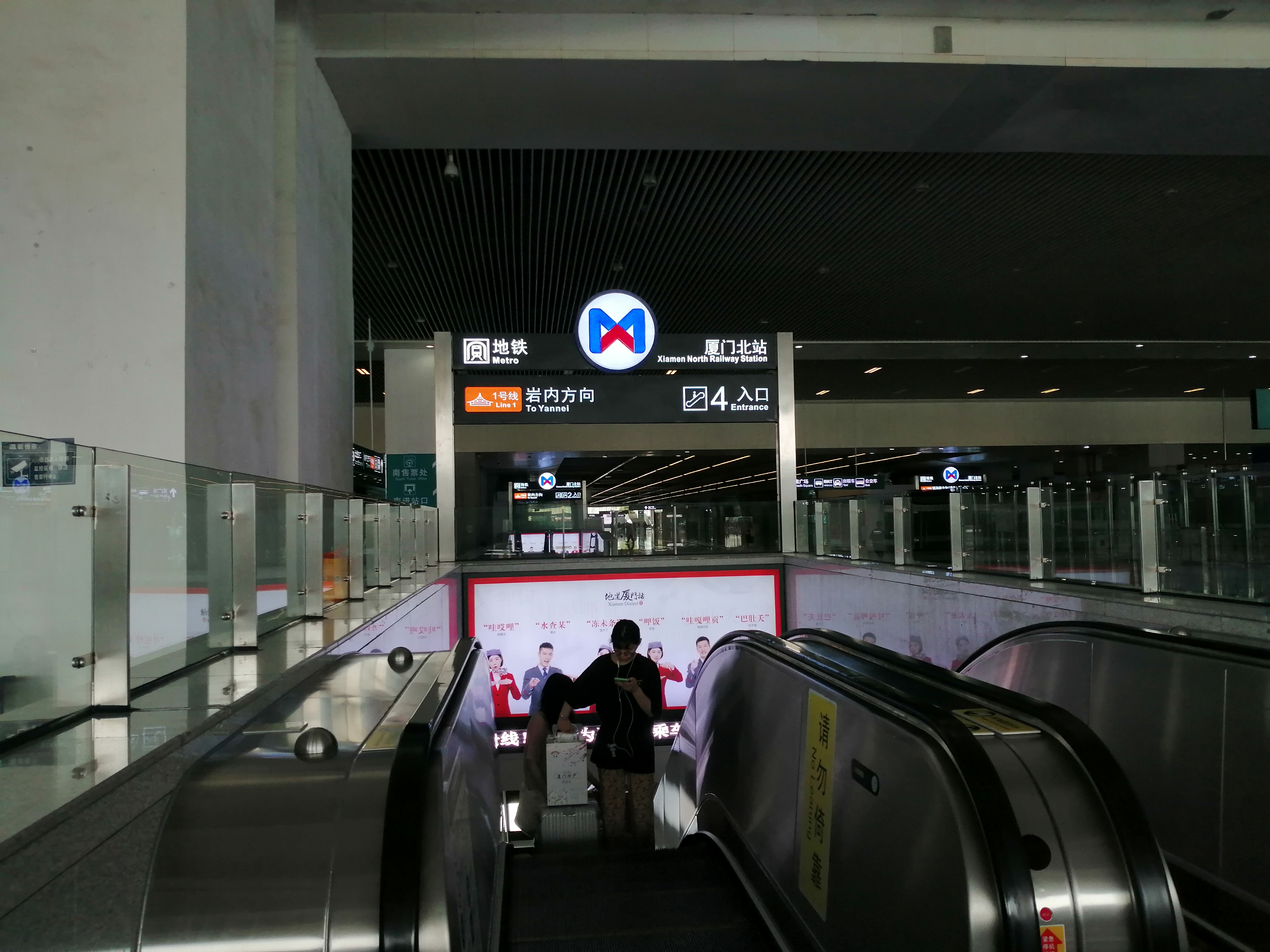 Exit 4 of Xiamen North Railway Station, Xiamen Metro 中文（中国大陆）: 厦门地铁厦门北站4号口